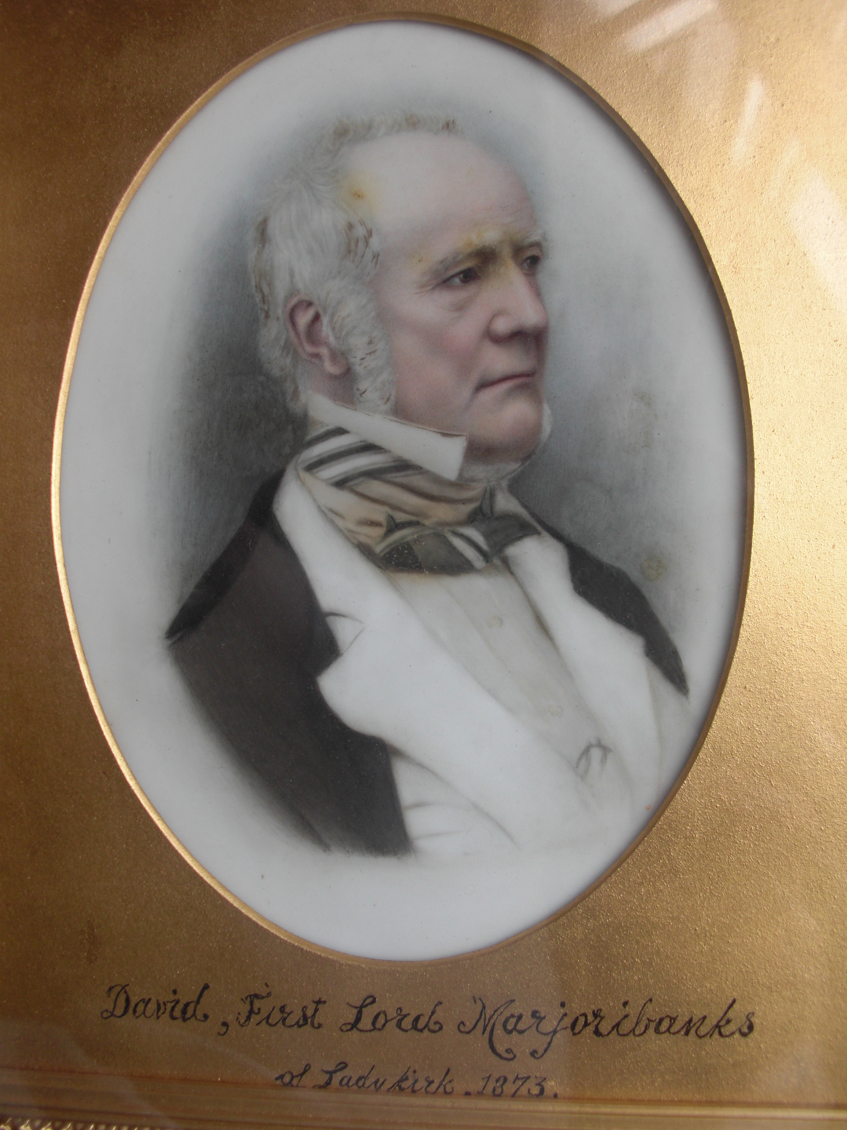 Photograph of a daguerreotype of David, 1st Lord Marjoribanks of Ladykirk. I took the photograph and I own the daguerreotype.